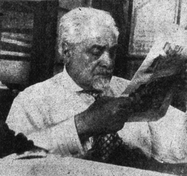 Samuel Goldflam, Polish physician